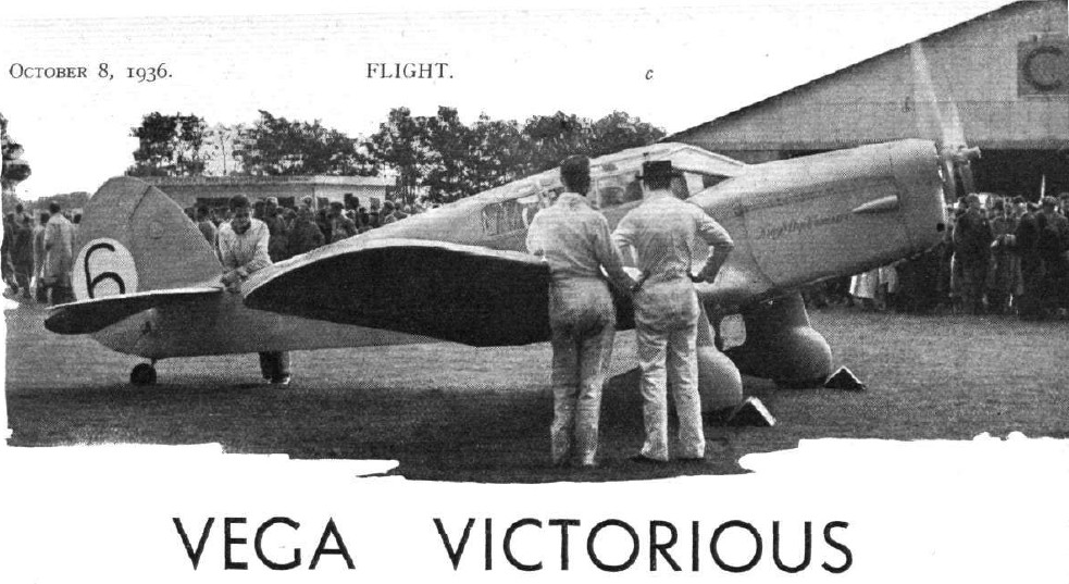 Percival Vega Gull G-AEKE after winning the Schlesinger Race piloted by C.W.A. Scott and Giles Guthrie.